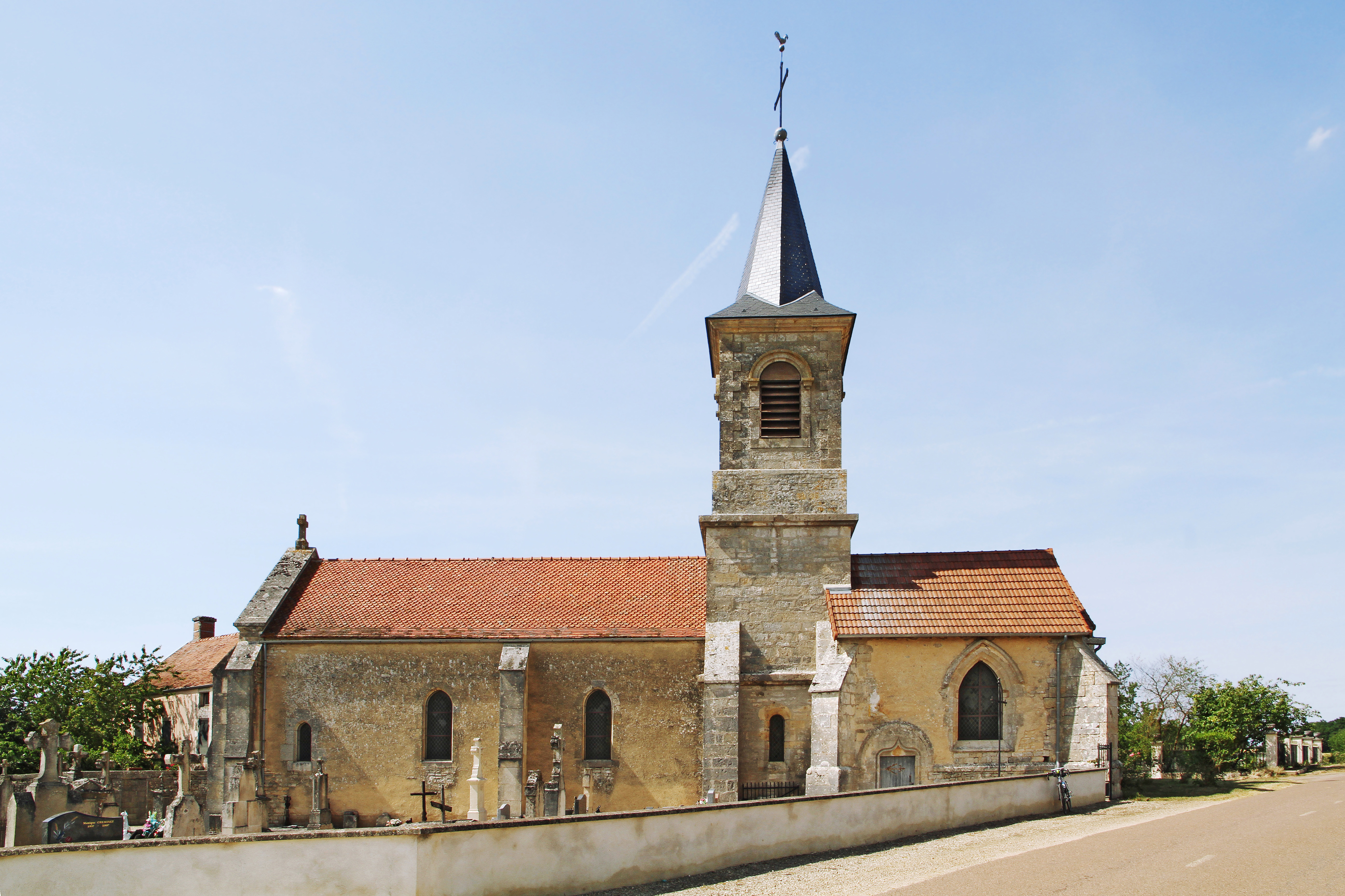 Church of Nativity of Mary in Mauvilly